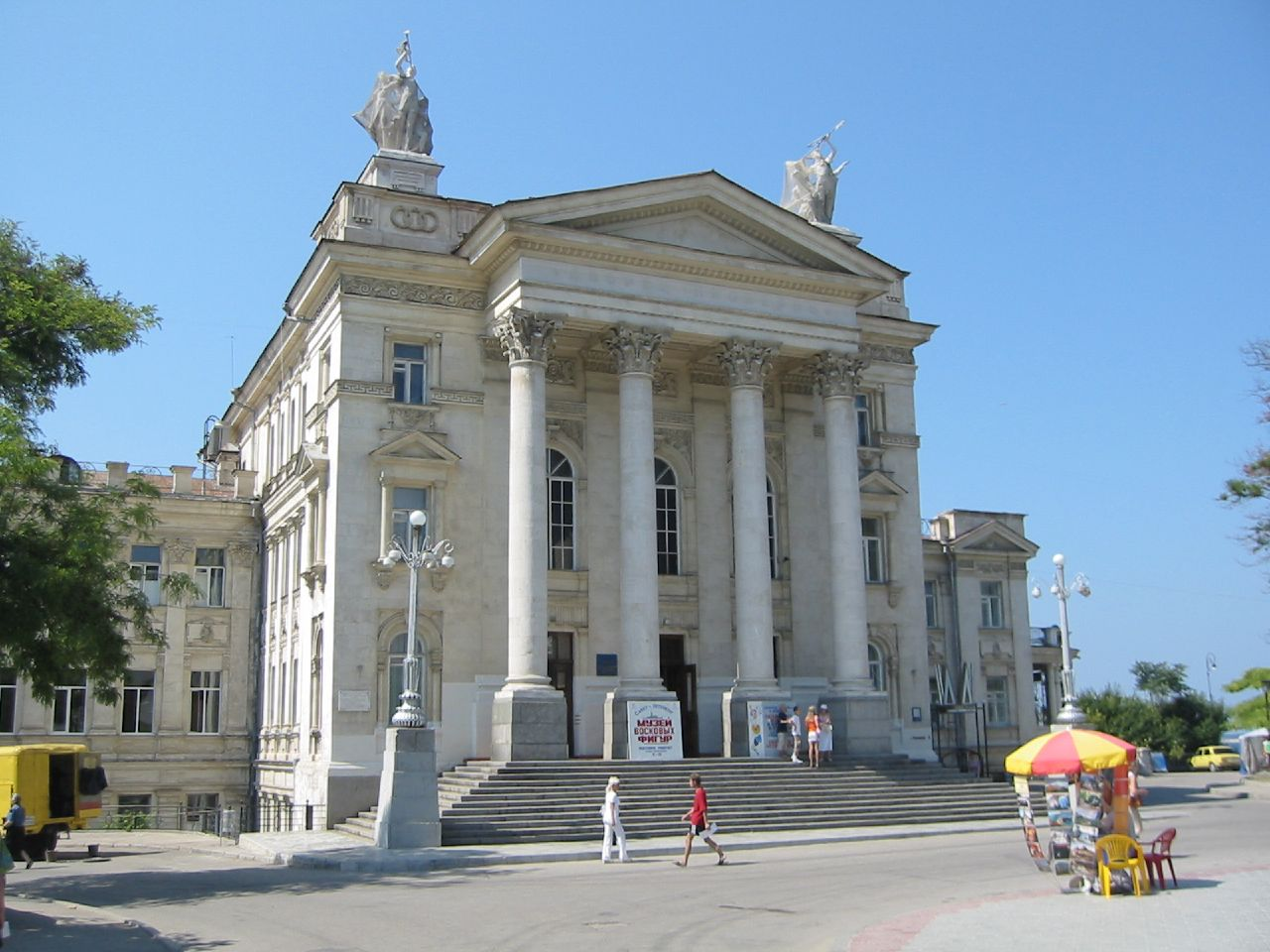 Young Pioneer Palace in Sevastopol. [1] Built in 1914, architect V. A. Chistov. Restorated in 1966-1967, architects A. V. Bobkov, A. L. Sheffer.